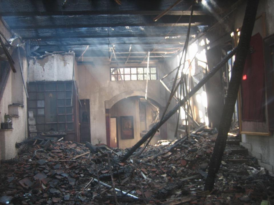 Bora Stanković theater after the fire, Vranje, Serbia, 2012